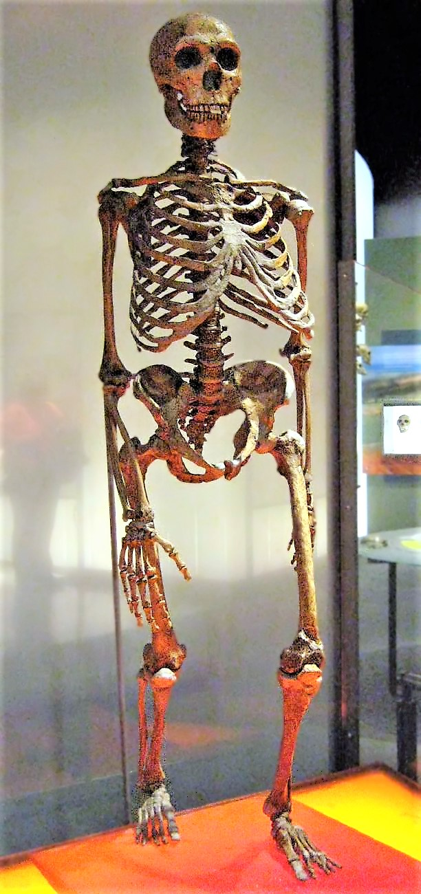 Neanderthal Skeleton, AMNH